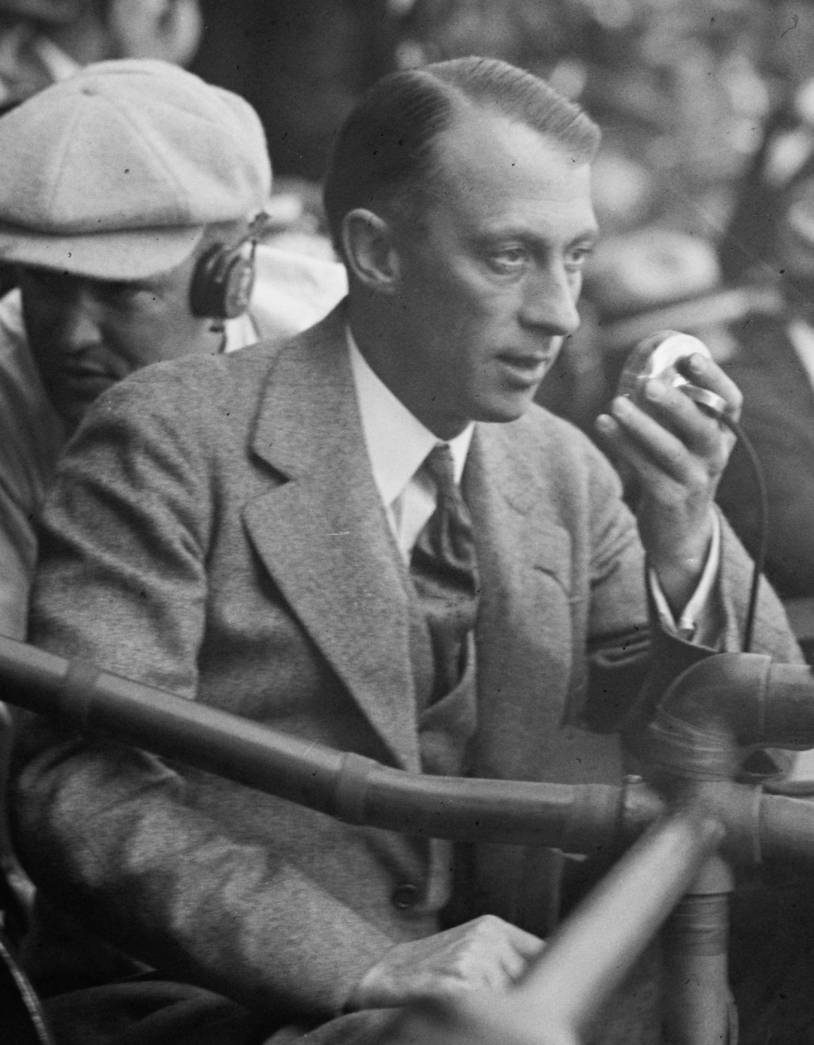 American sports journalist Graham McNamee (1888-1942) broadcasting World Series in 1924